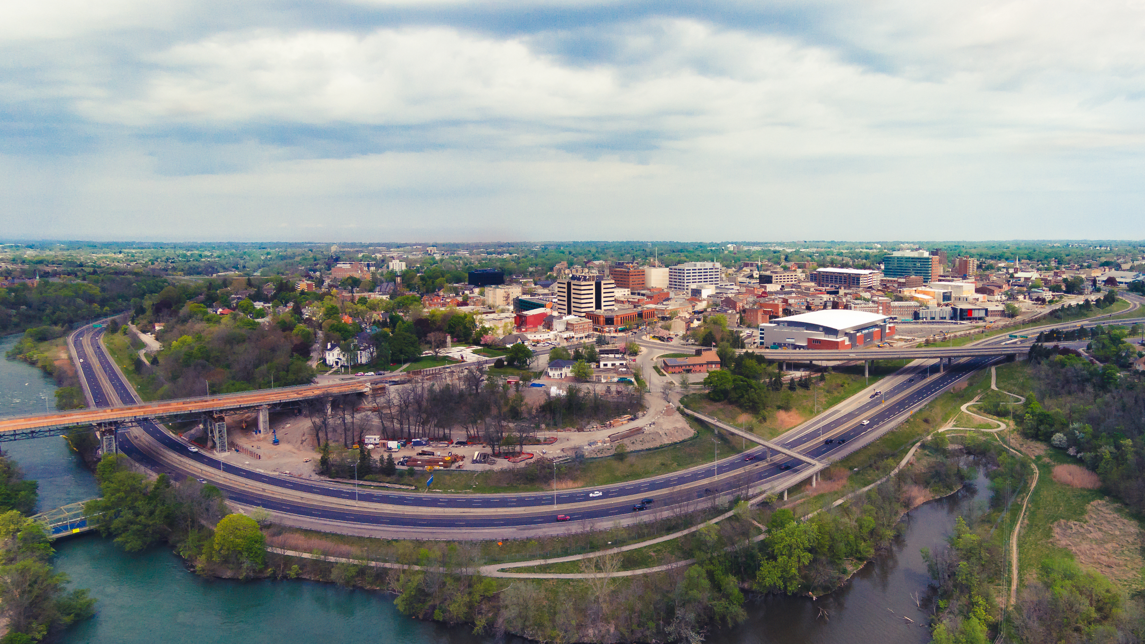 Aerial view of downtown St. Catharines, showing Twelve Mile Creek in the foreground. Burgoyne Bridge on the left was being reconstructed at the time of this photo